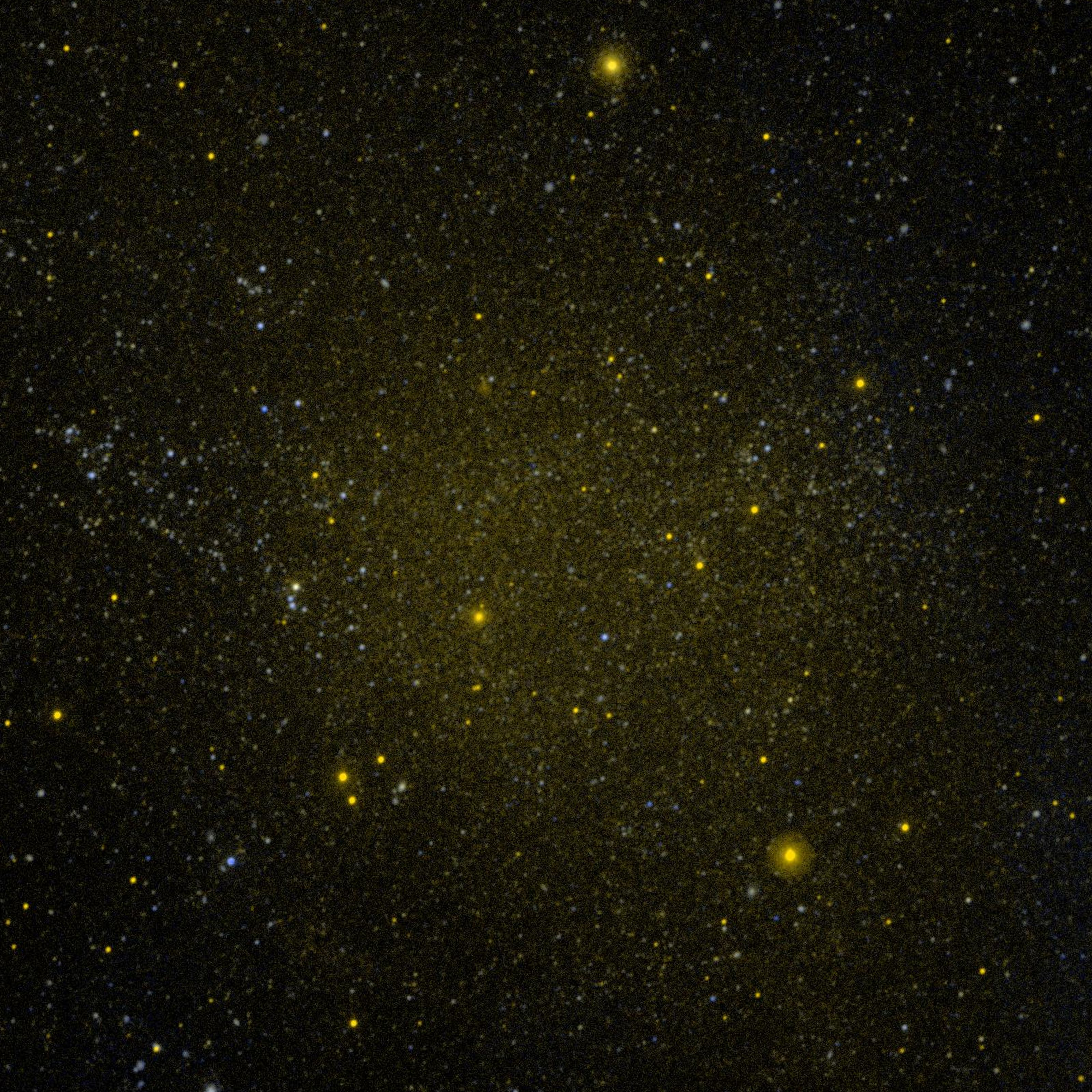 Fornax Dwarf galaxy by GALEX